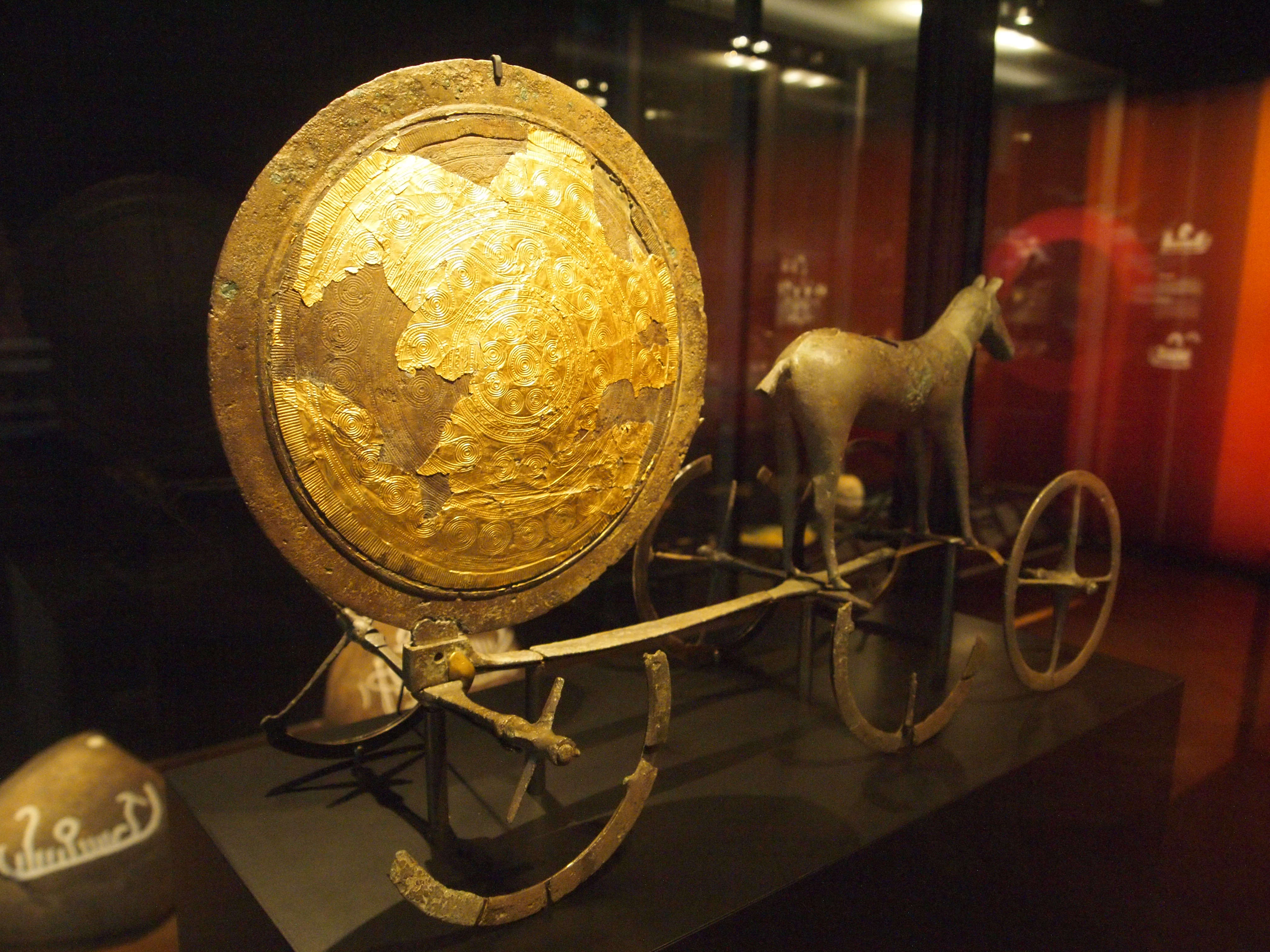 Pictures taken at the National Museet - The National Museum - Copenhagen Denmark during the Wikipedia Loves Nationalmuseet